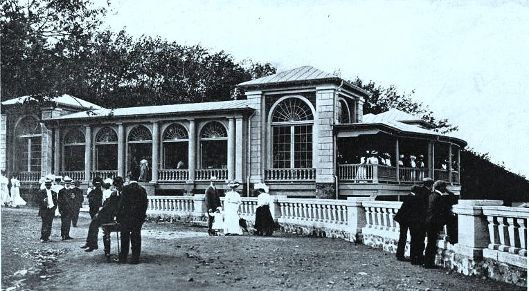 Print, Mount Royal Lookout, Montreal, QC, 1906, Anonymous, Ink on paper mounted on card - Halftone - 10 x 19 cm